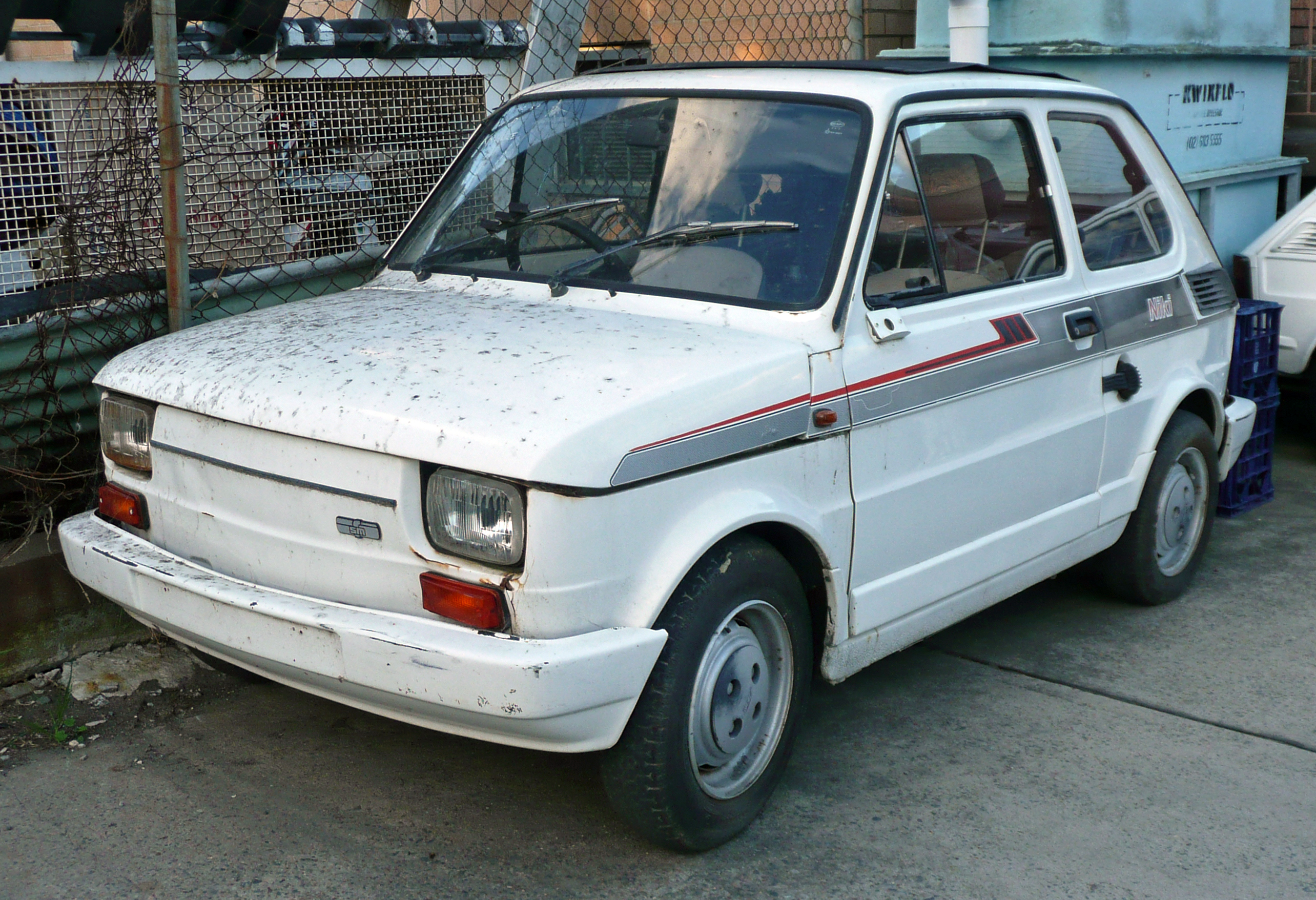 1989–1993 FSM Niki fastback. Photographed in Kirrawee, New South Wales, Australia.